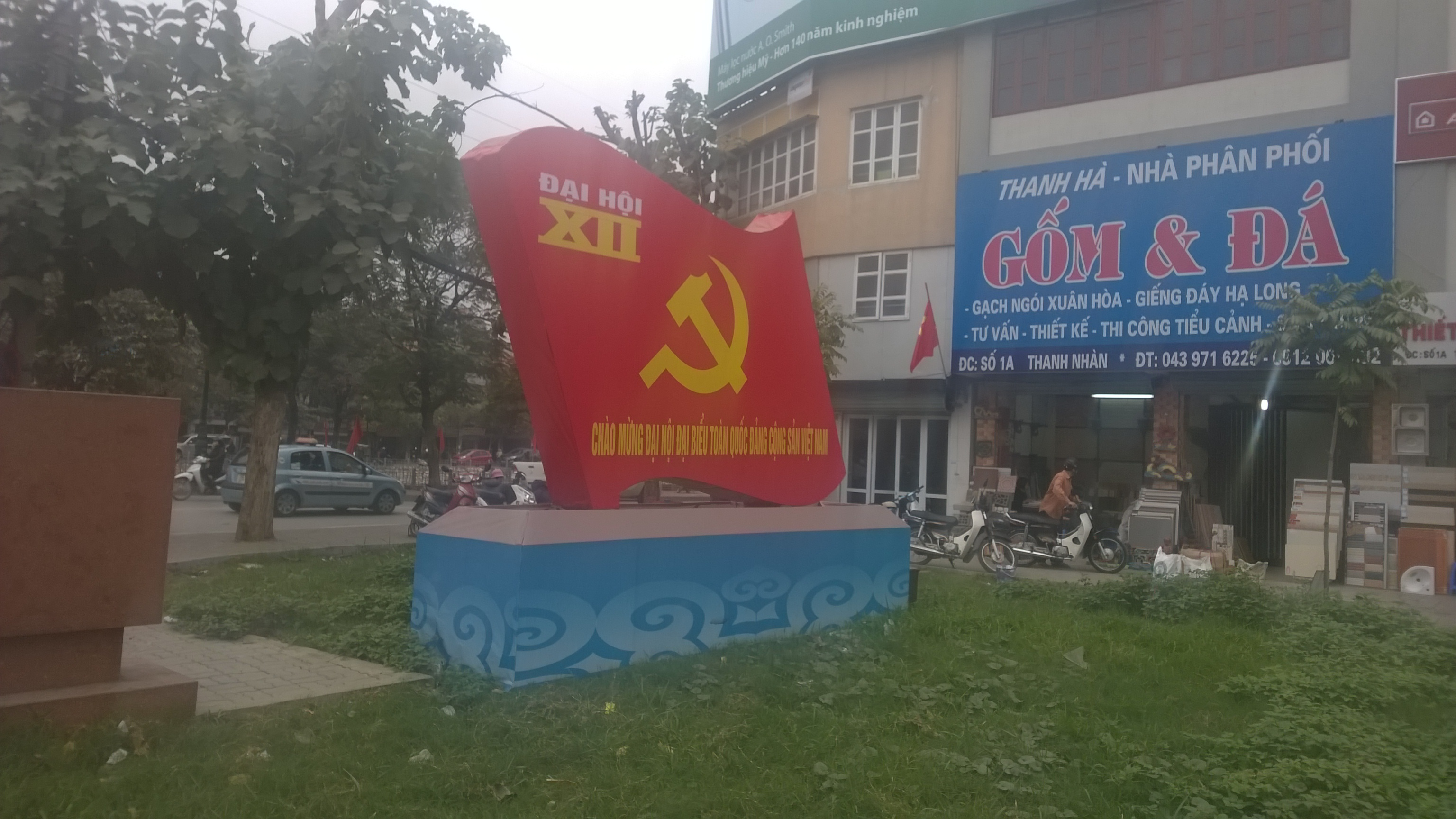 Communist Party of Vietnam 12th party congress large propaganda sign.